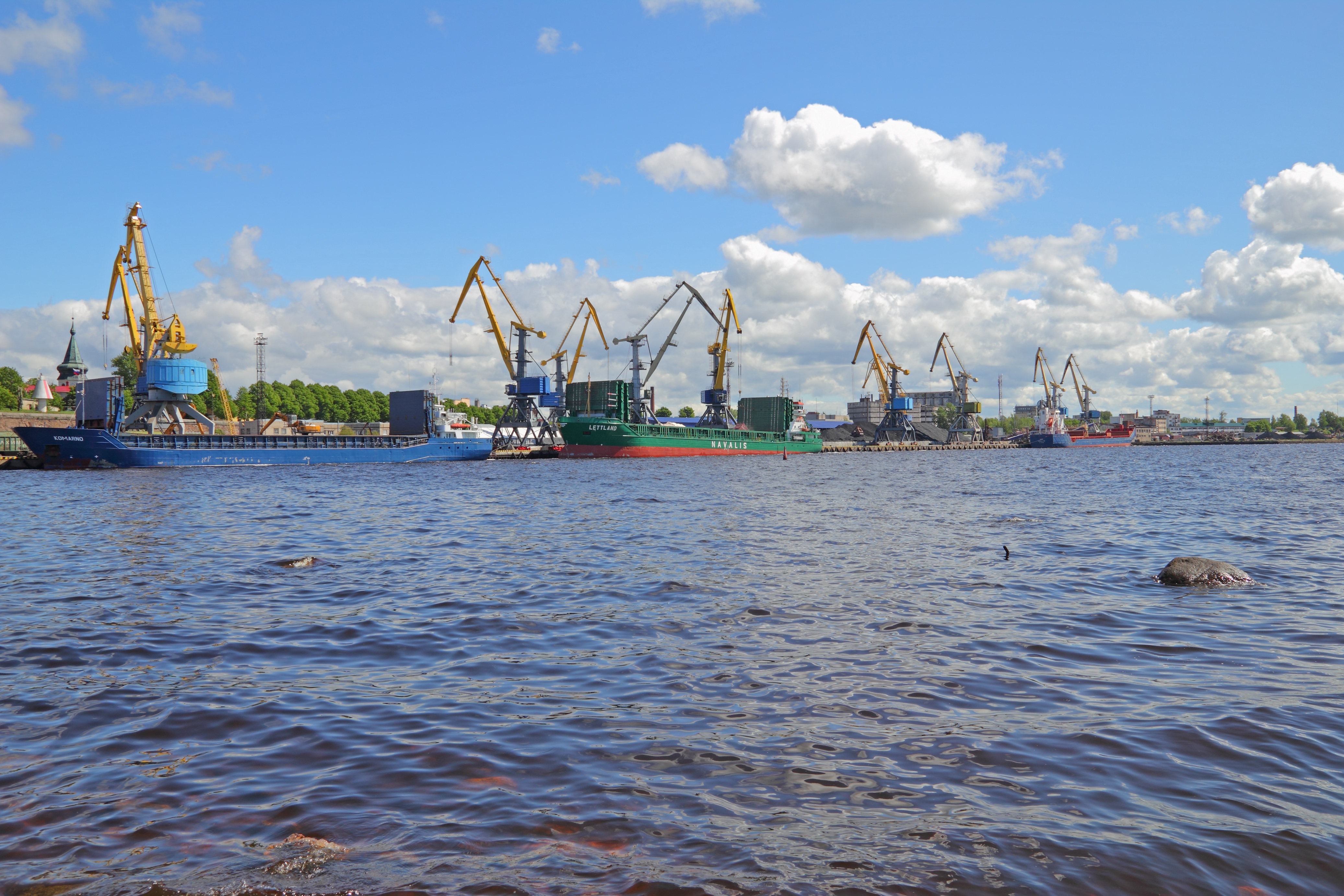 Vyborg (former Viipuri), Leningrad Oblast, Russia. Views from Shturma Street.